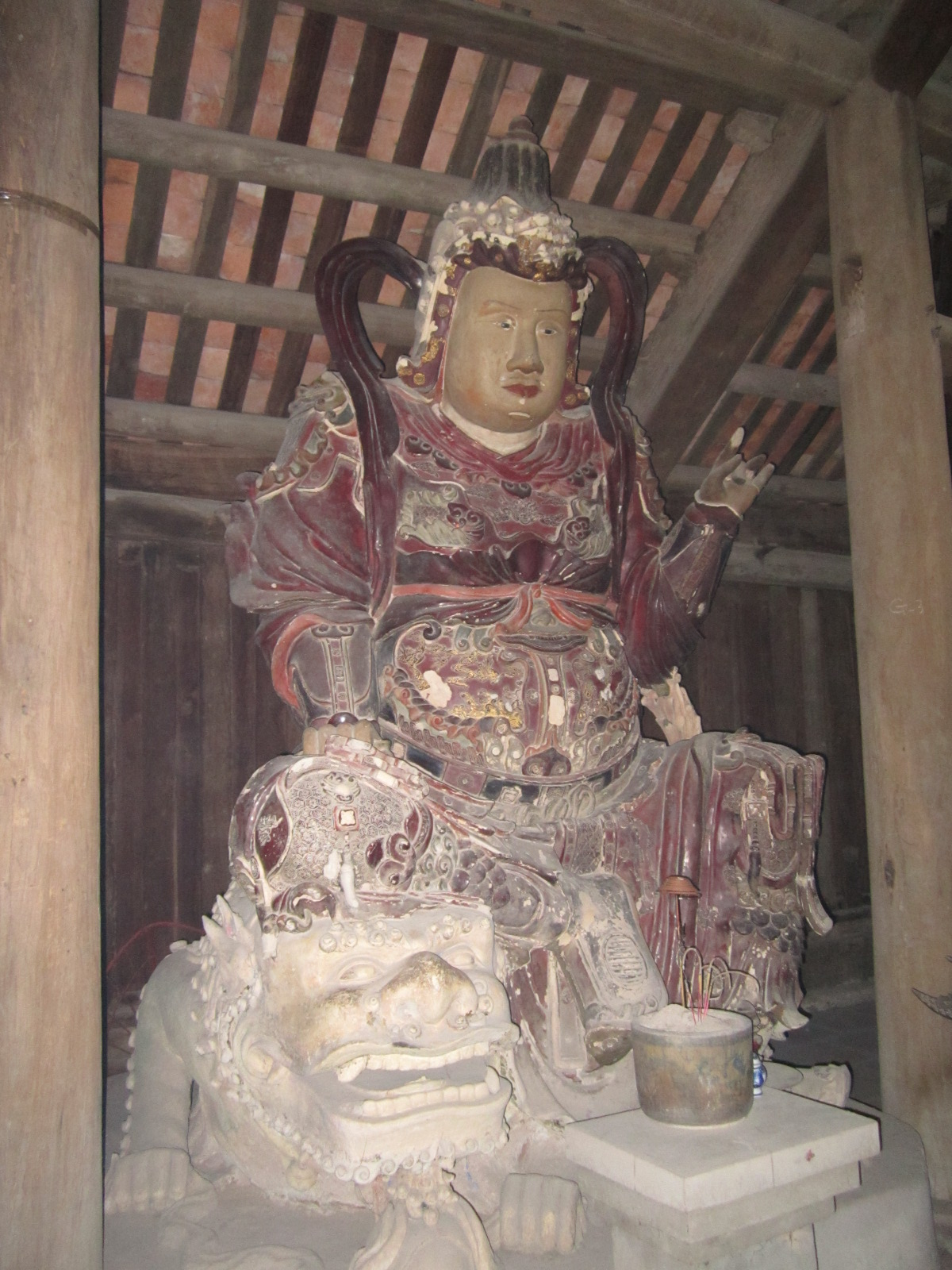 Dharmapala, Bút Tháp Buddhist Temple, Bac-ninh